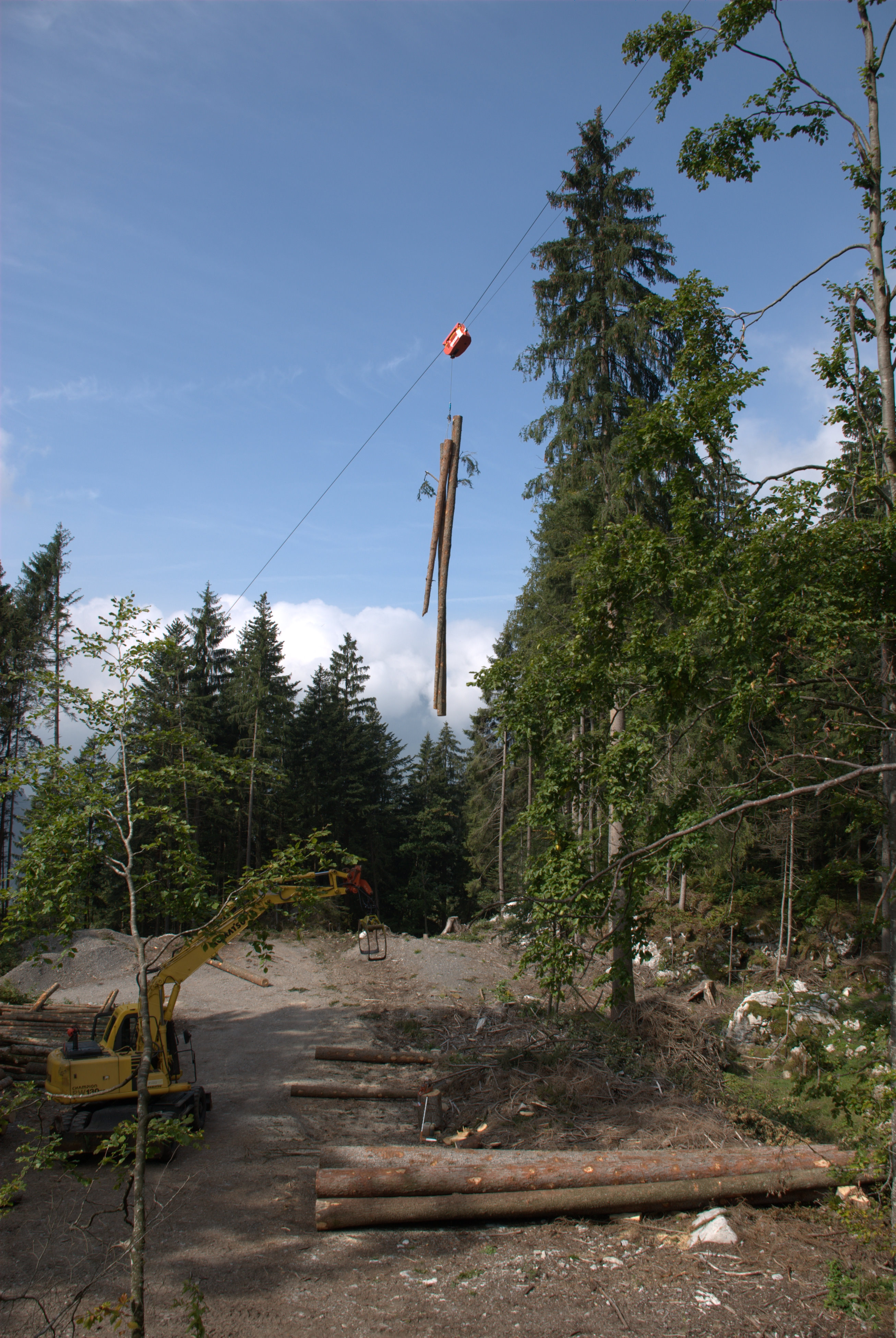 Wyssen Slackpuller